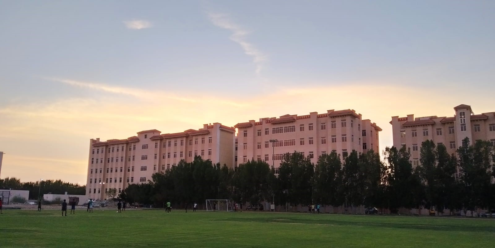 Boys hostels comprise of A,B,C,D block